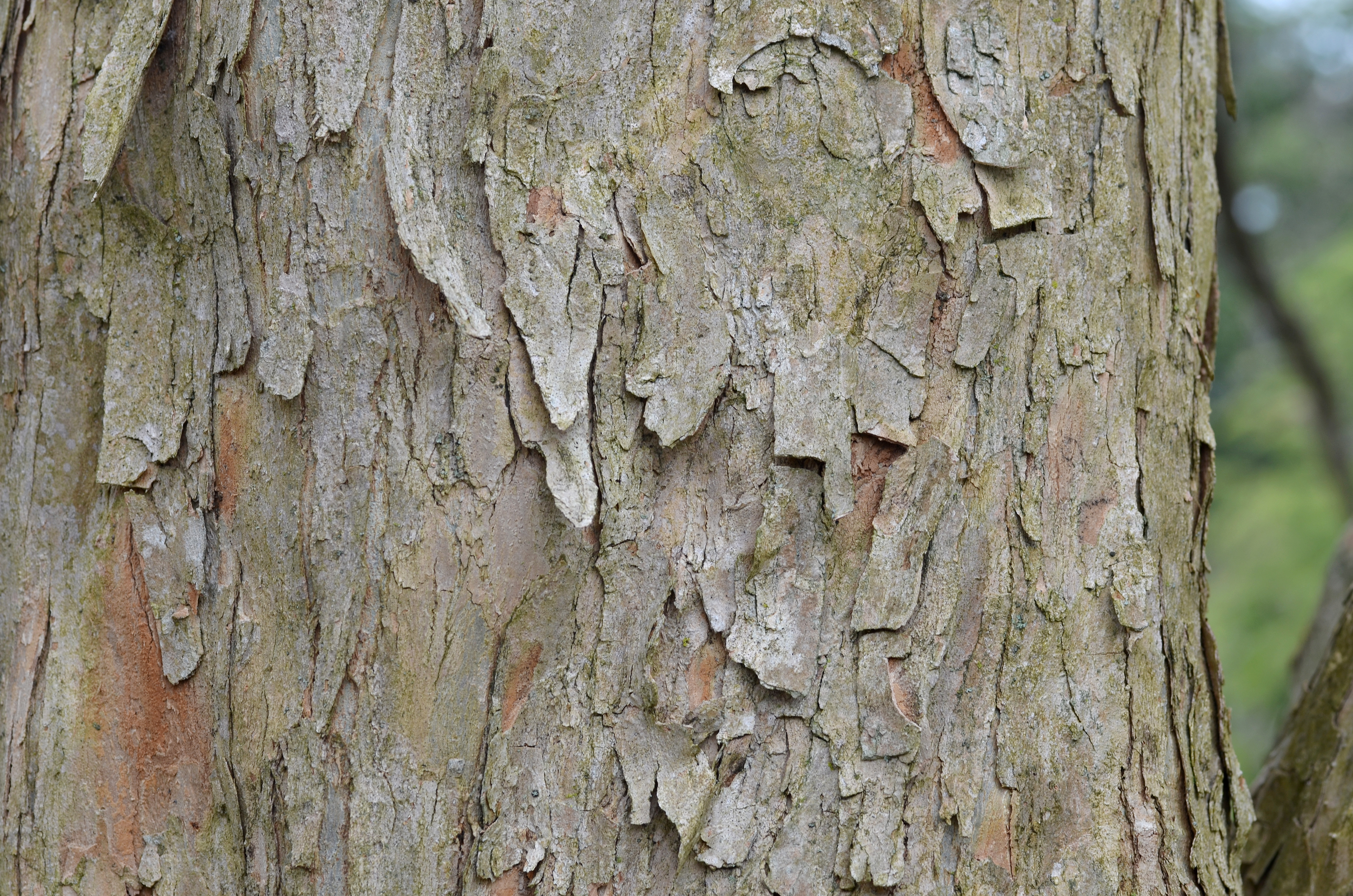 Photograph of the bark of the Trident Mapleen (Acer buergerianum en ). Photo taken at the Tyler Arboretum where its species was identified under accession #80-009-002.